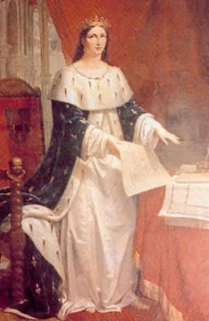 Margaret of Burgundy, wife of Charles I of Naples